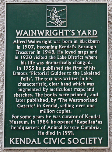 Wainwrights Yard - @Wainwright's Yard, Highgate, Kendal - 'Wainwright's Yard. Alfred Wainwright was born in Blackburn in 1907, becoming Kendal's Borough Teasurer in 1948. He loved maps and in 1930 visited the Lake District where his life was dramatically changed. In 1955 he published the first of his famous 'Pictorial Guides to the Lakeland Fells'. The text was written in his characteristic, clear hand which was augmented by meticulous maps and sketches. The books were printed, and later published, by 'The Westmorland Gazette' in Kendal, selling over one million copies. For some years he was curator of Kendal Museum. In 1984 he opened 'Kapellan' as headquarters of Animal Rescue Cumbria. He died in 1991.' by Kendal Civic Society